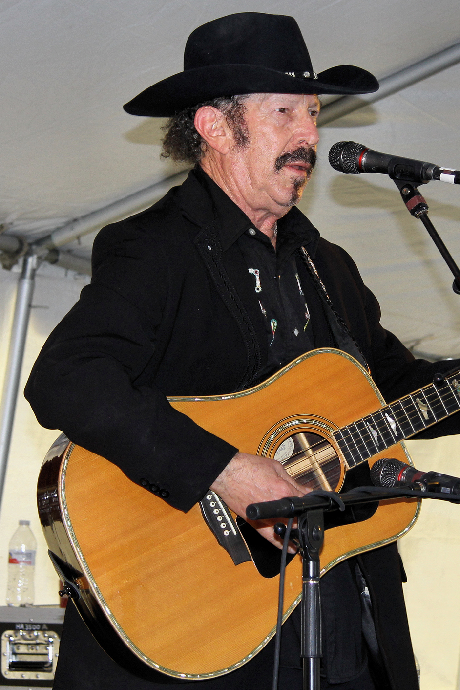 Kinky Friedman at the 2013 Texas Book Festival, Austin, Texas, United States.